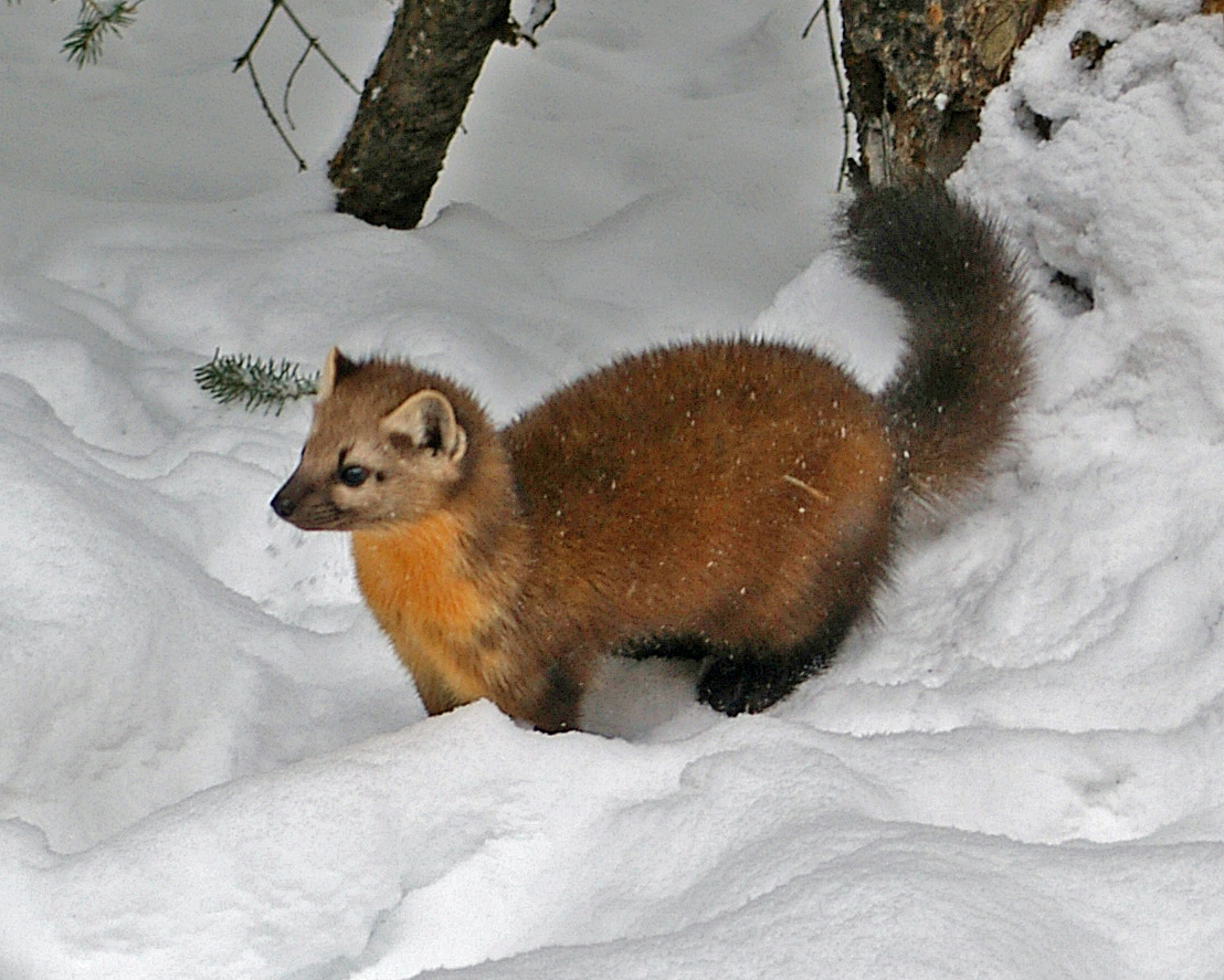 Martes americana, Yellowstone NP.